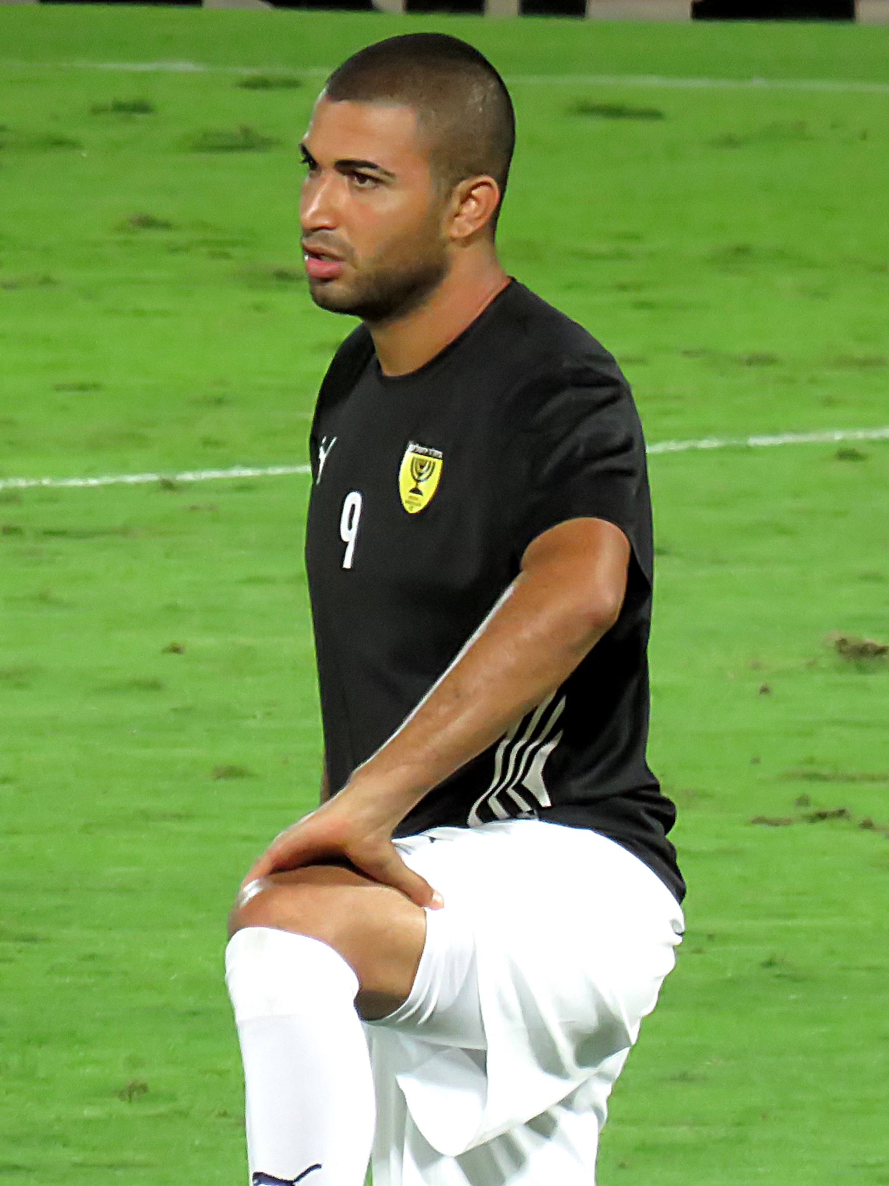 Bnei Yehuda Tel Aviv vs. Beitar Jerusalem - 19 September, 2015